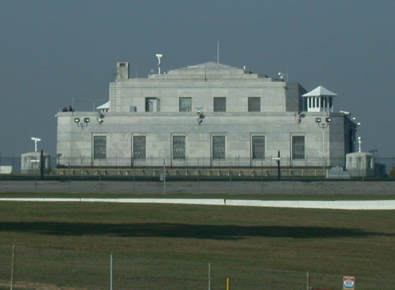 You can see the security - Guard Towers, Guards, Wire fences and cameras.